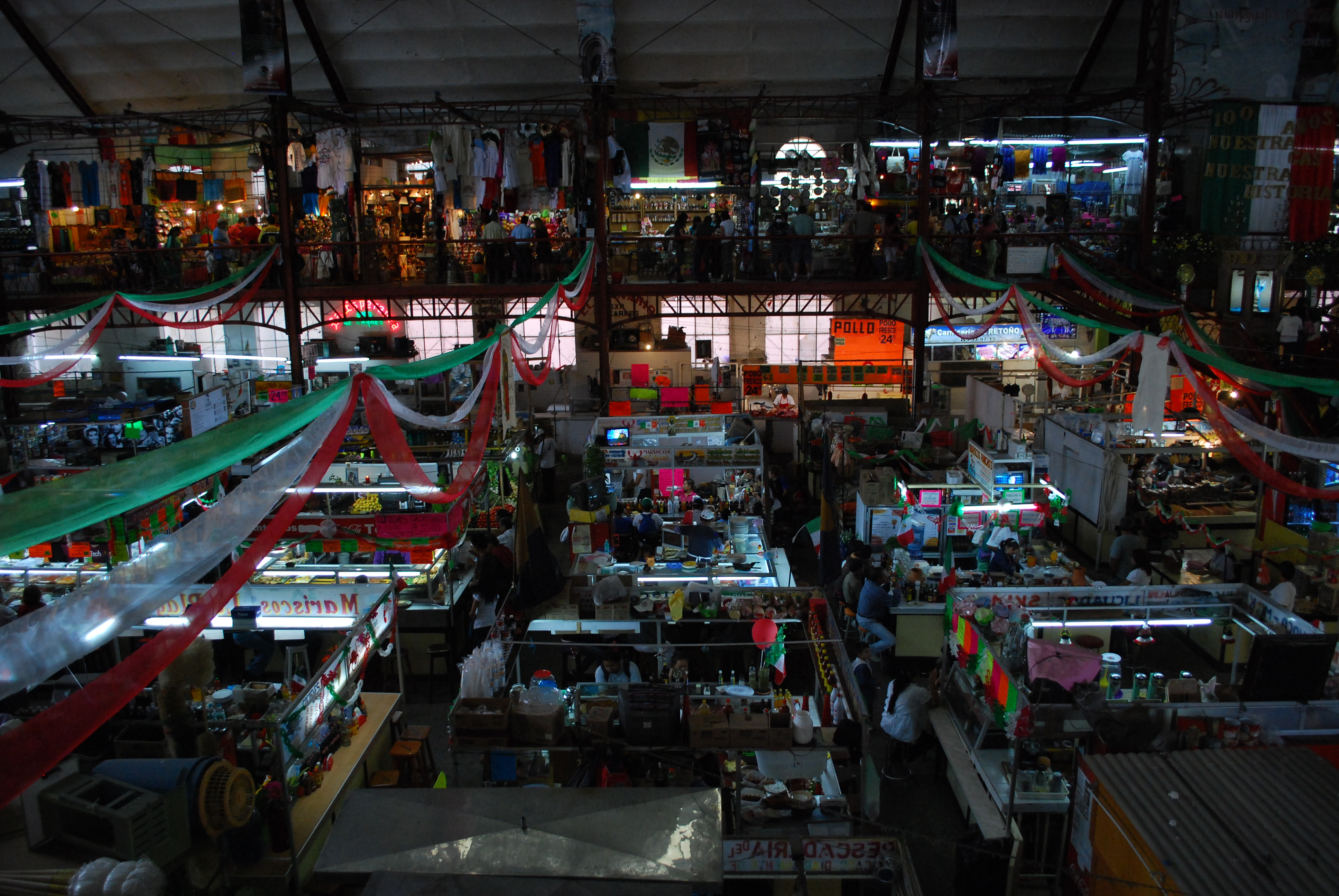 Stalls in the Hidalgo Market in Guanajuato city, Mexico